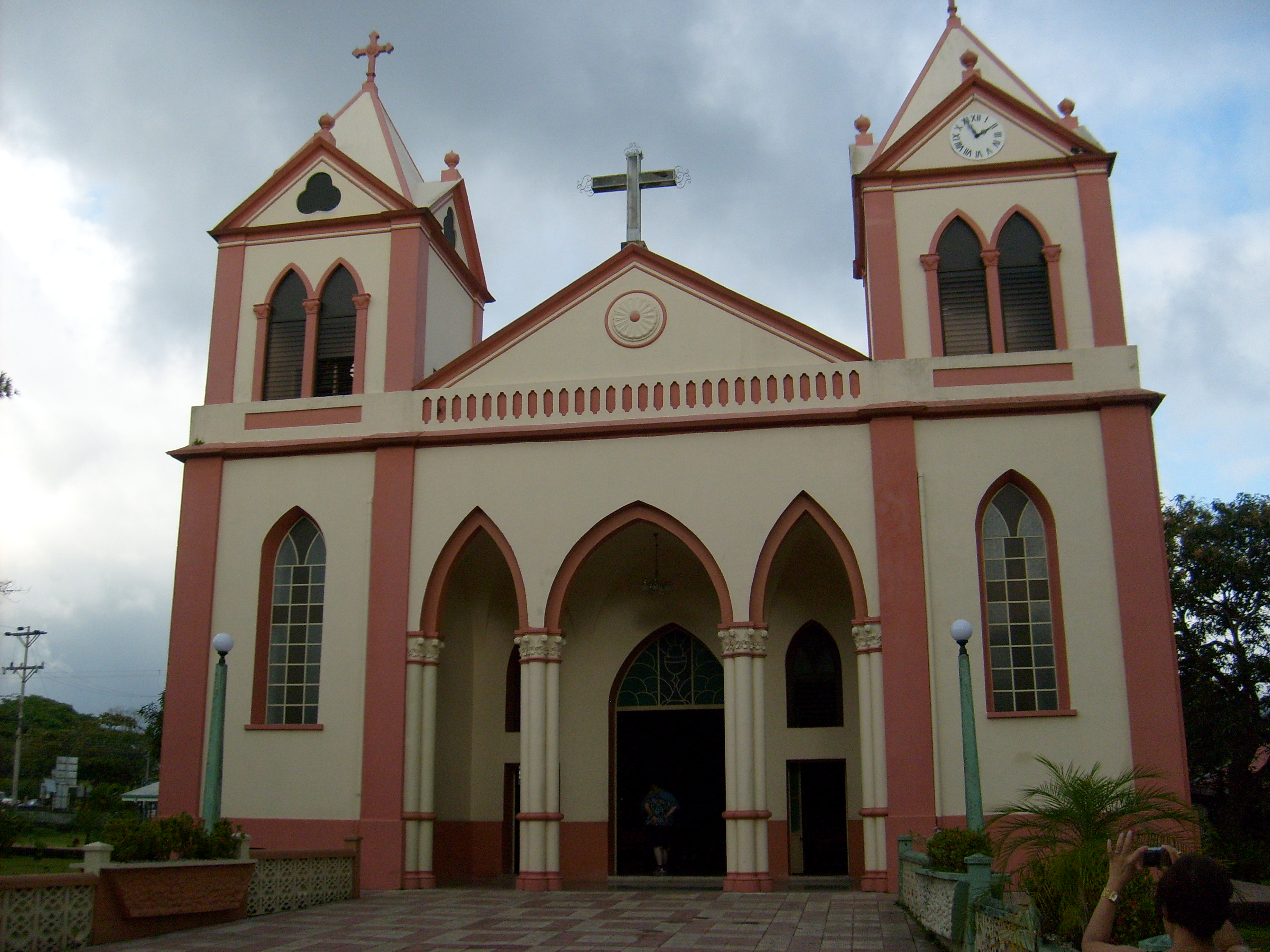 View of the church front in San Mateo de Alajuela.